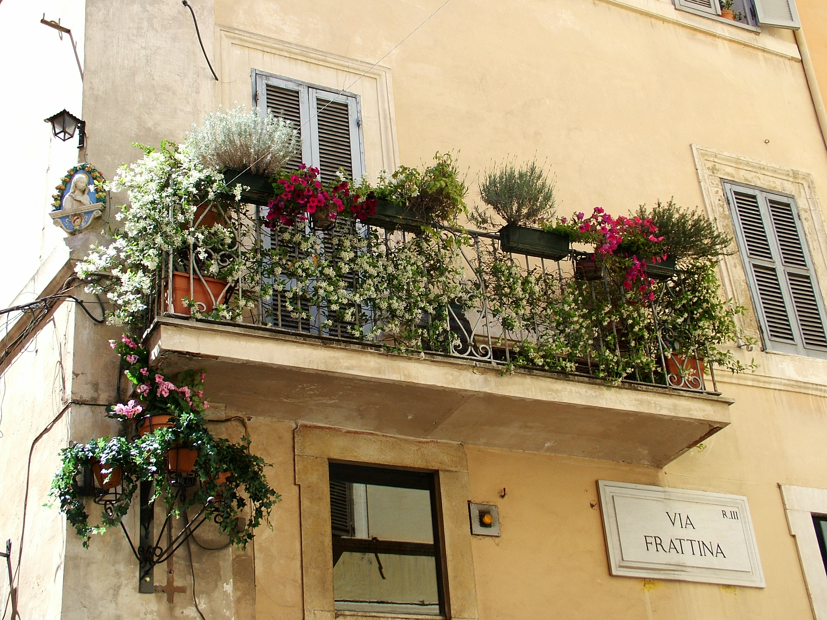 Balcony in Via Frattina, Rome Photographed by: Per Palmkvist Knudsen